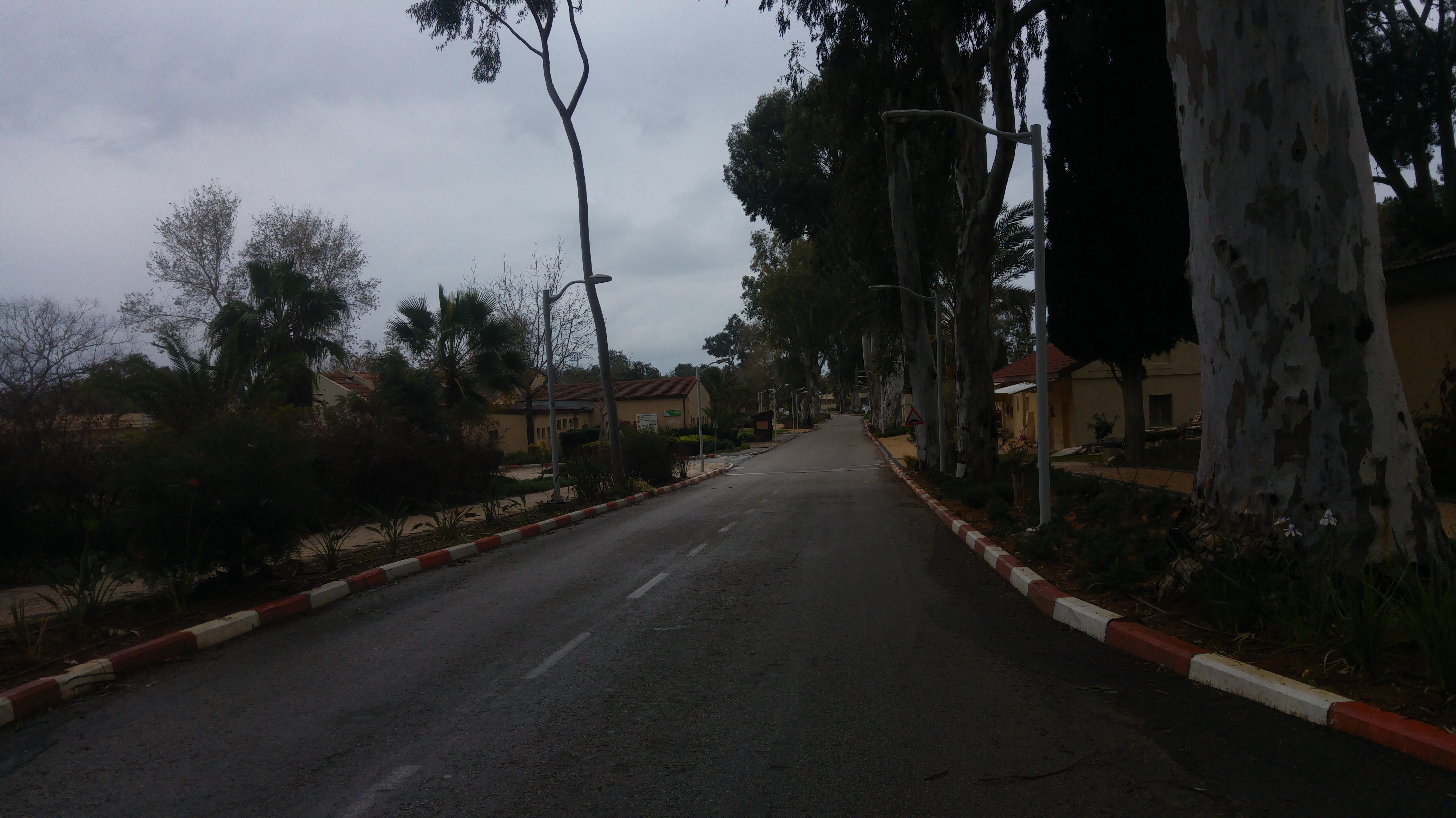 Shoham Combined Centre for Geriatric Medicine